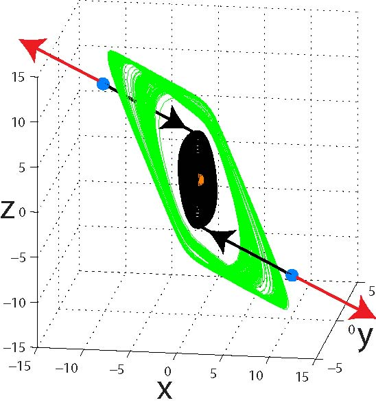 In 2010, for the first time, hidden chaotic attractor (basin of attraction does not contain neighborhoods of equilibria) was discovered. This is example of hidden attractor (green domain) in Chua's system. Here trajectories starting in the neighborhoods of two saddle points (blue) tend to infinity (red arrow) or tend (black arrow) to stable zero equilibrium point (orange).